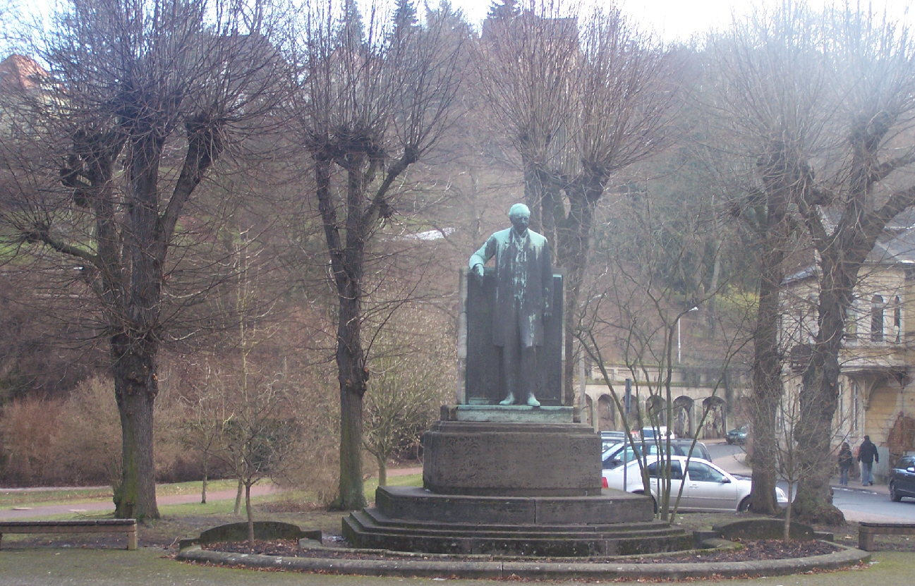 The Monument for CARL ALEXANDER, Grand Duke of Saxon-Weimar-Eisenach in Eisenach.